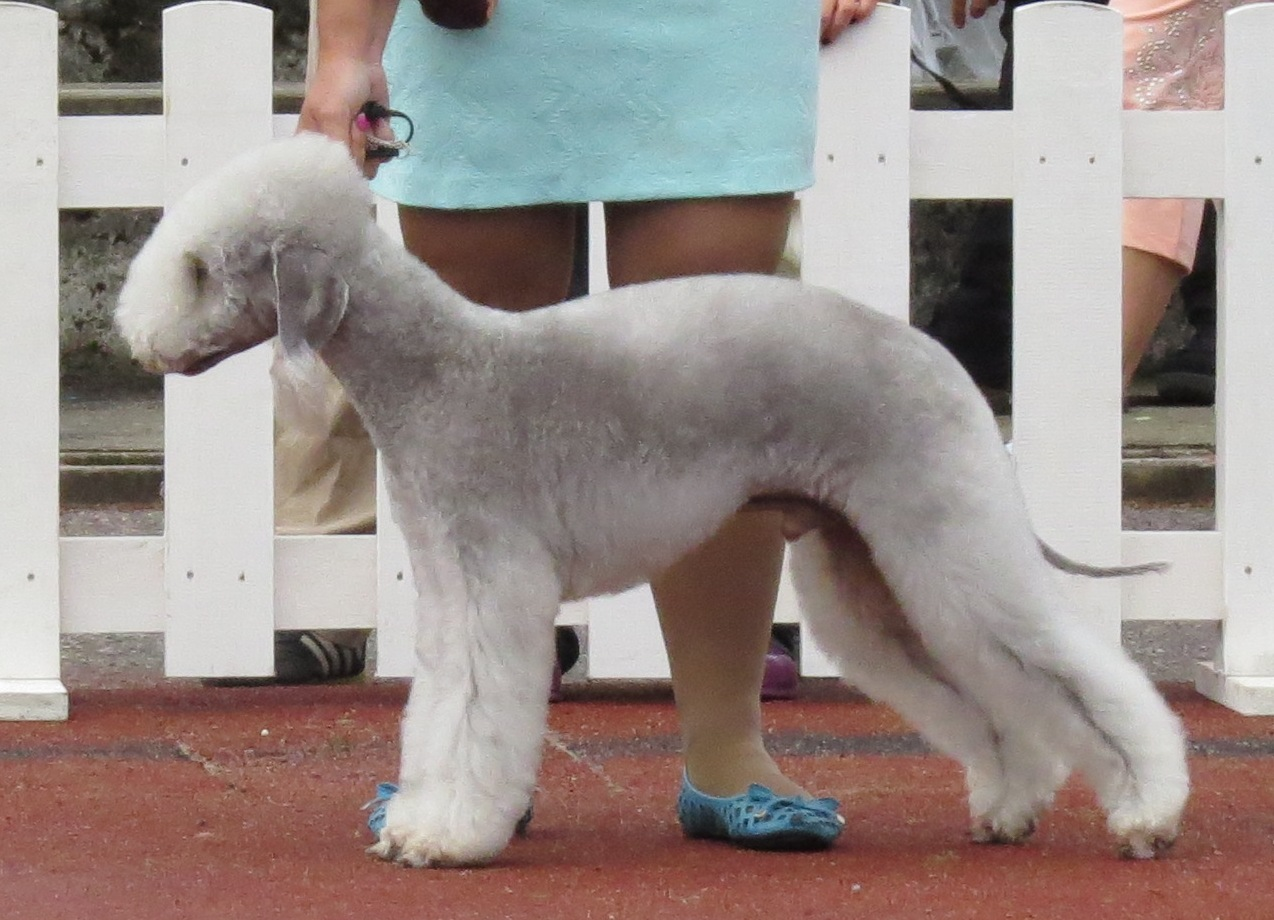 Tallinn, Estonia, duo CACIB 2013, August 17-18